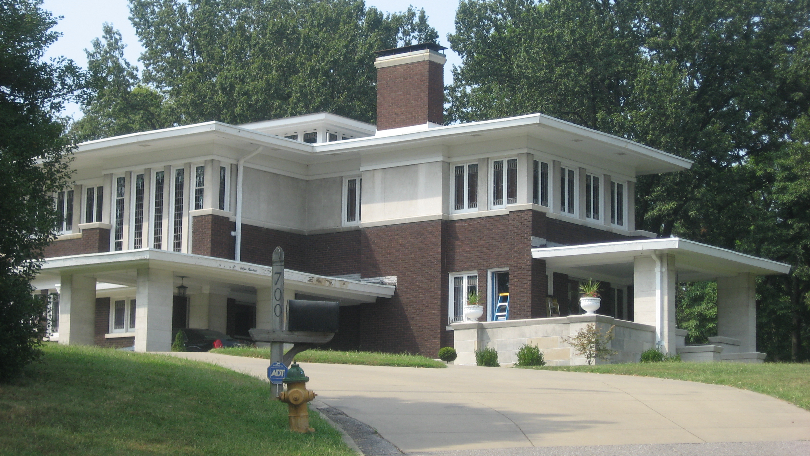 Front and southern side of the Michael D. Helfrich House, located at 700 Helfrich Lane in Evansville, Indiana, United States. Built in 1920, it is listed on the National Register of Historic Places.